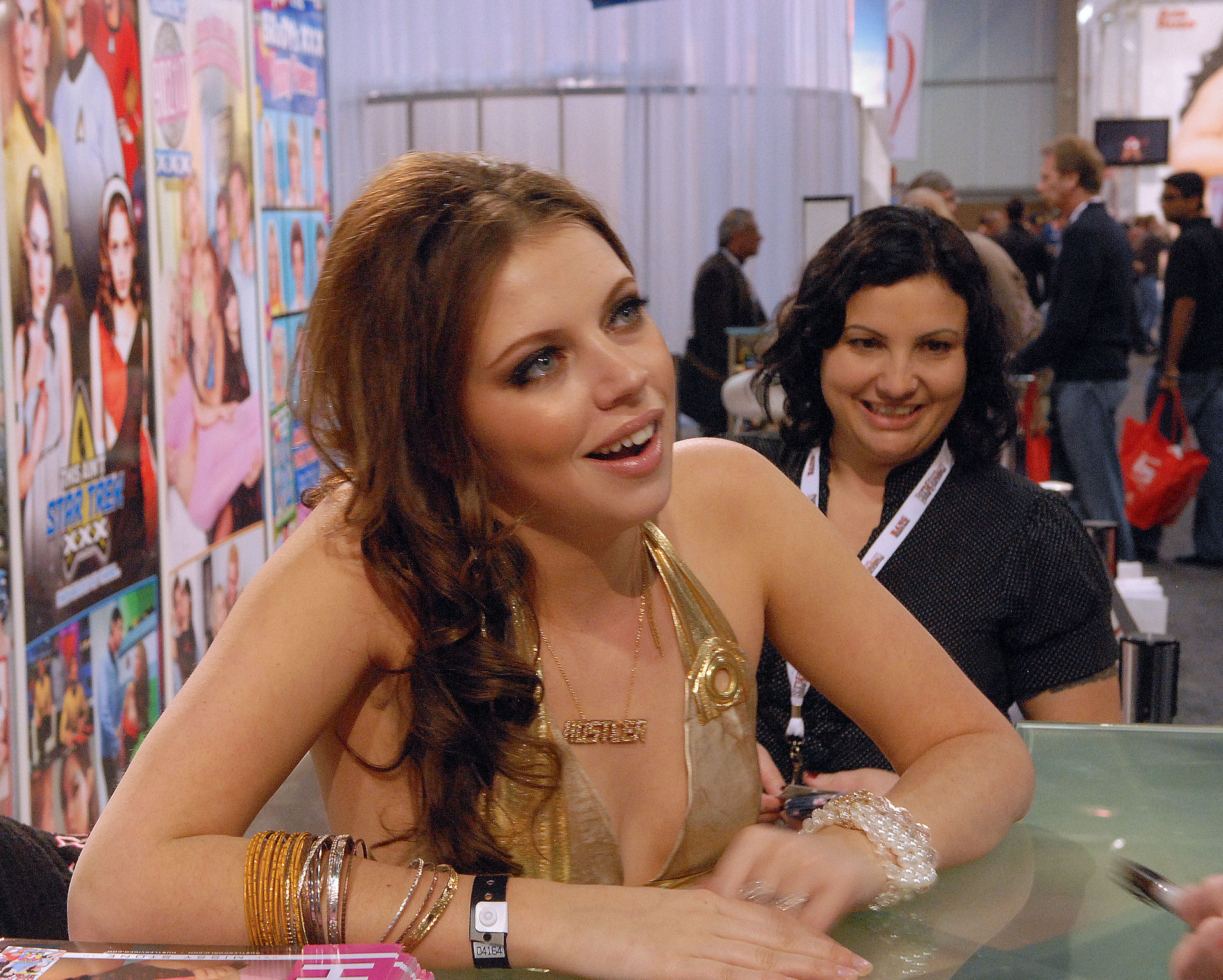 Hustler Star Missy Stone at AVN Adult Entertainment Expo 2010